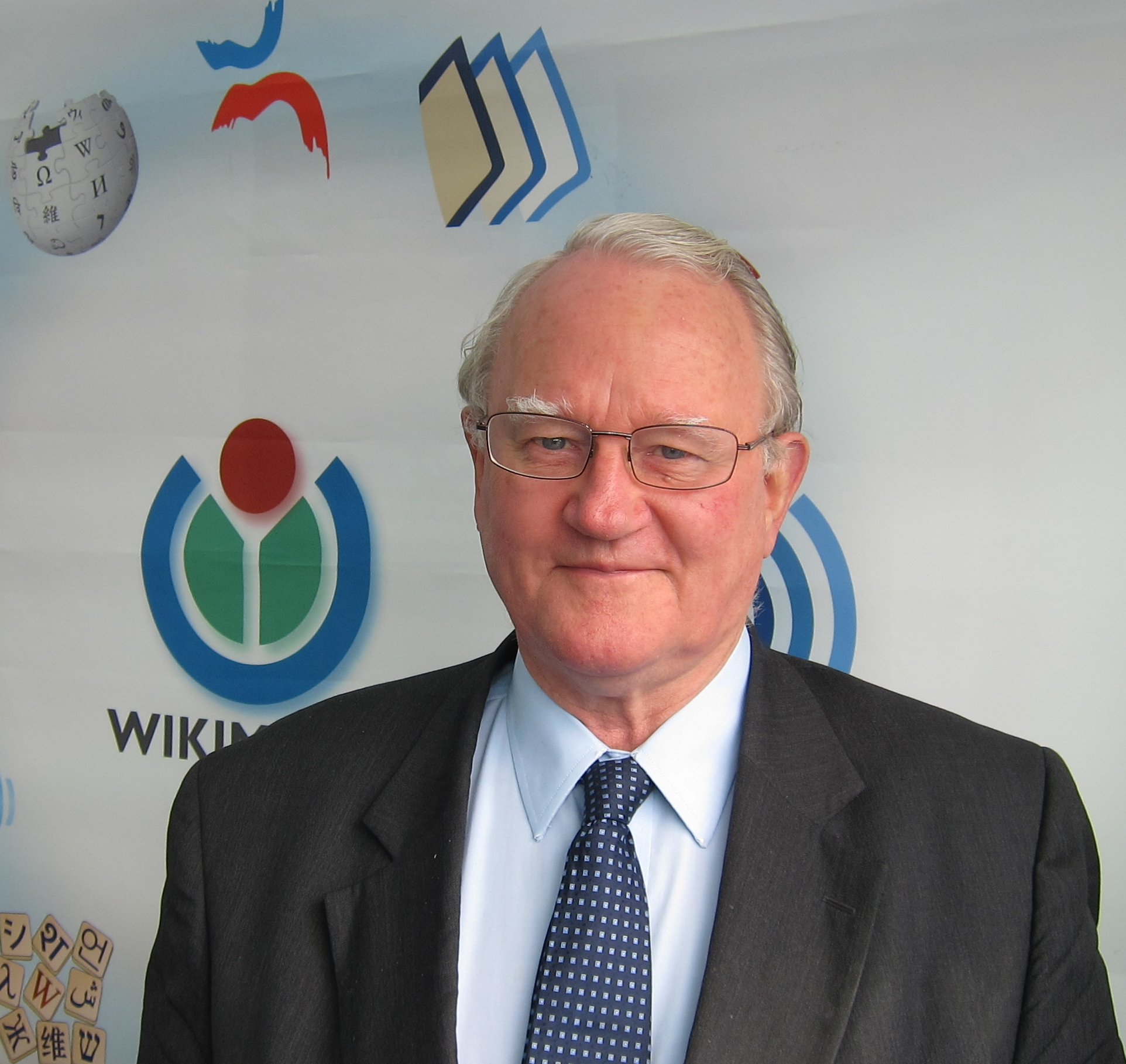 Jannik Lindbæk, Norwegian businessman, picture taken during Oslo bokfestival (Oslo book fair), as he dropped by the Wikimedia Norge stand